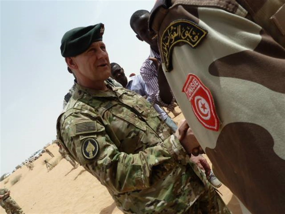 Special Operations Command Africa Commander General, U.S. Army Maj. Gen. James Linder, congratulates Tunisian special forces after a successful multi-national demonstration on Mar. 7, 2015 in the vicinity of Mao, Chad. The soldiers completed three weeks of training in austere conditions as part of the Flintlock 2015 exercise. (Photo by U.S. Air Force Maj. Nathan Broshear/RELEASED)